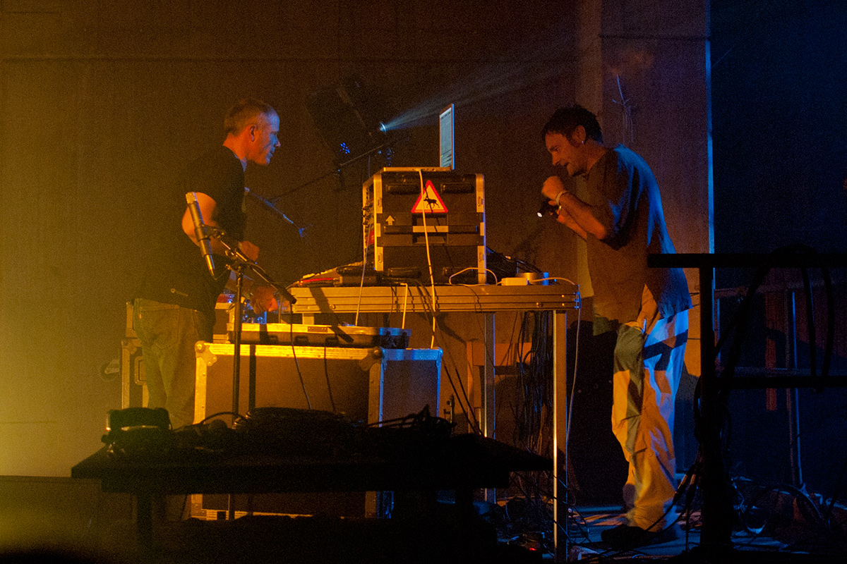 zoviet*france: performing at Norbergfestival in Norberg, Sweden, 2011. Left to right: Mark Warren, Ben Ponton.